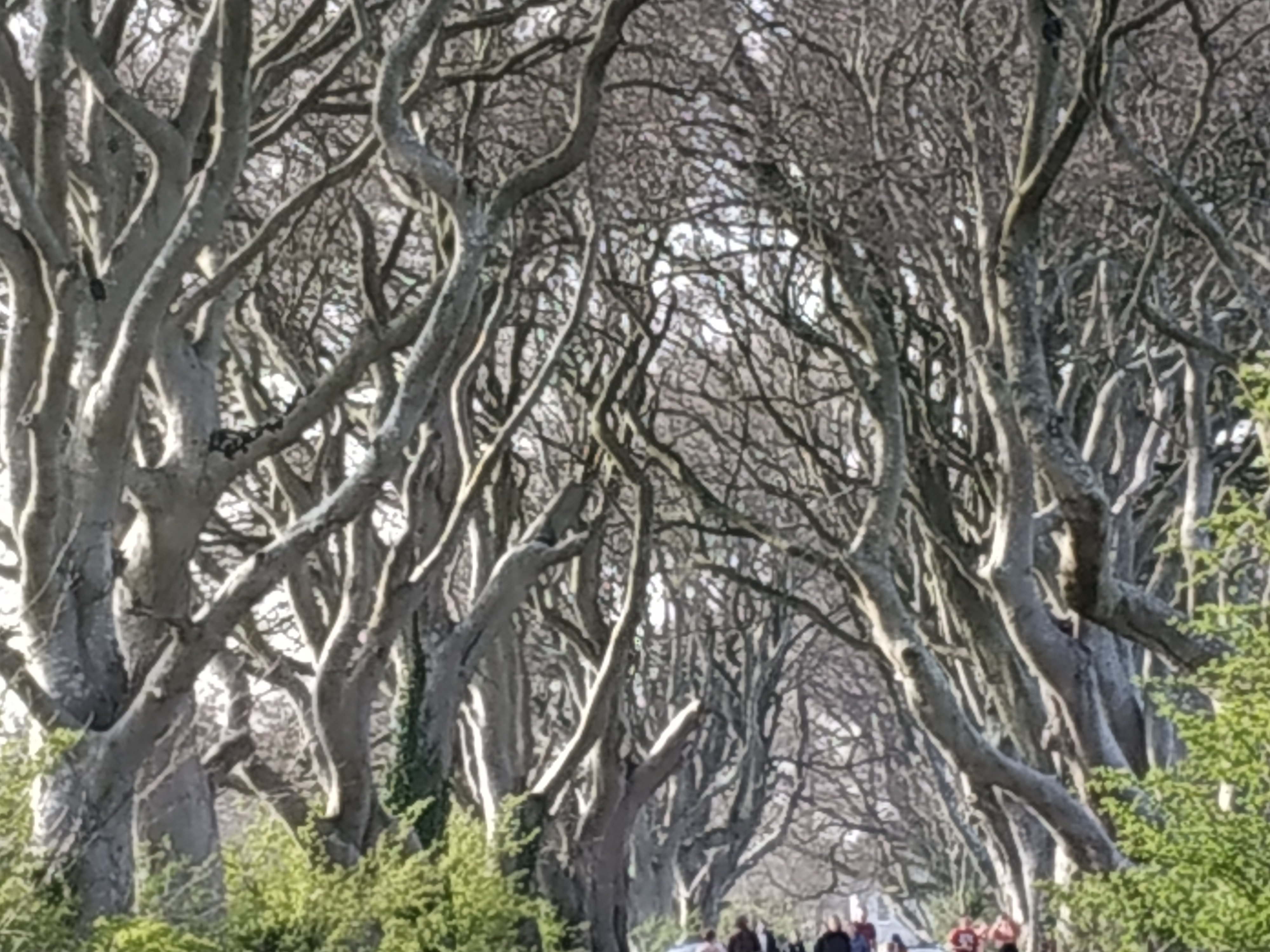 Tunnel formed by this path of dark hedges.